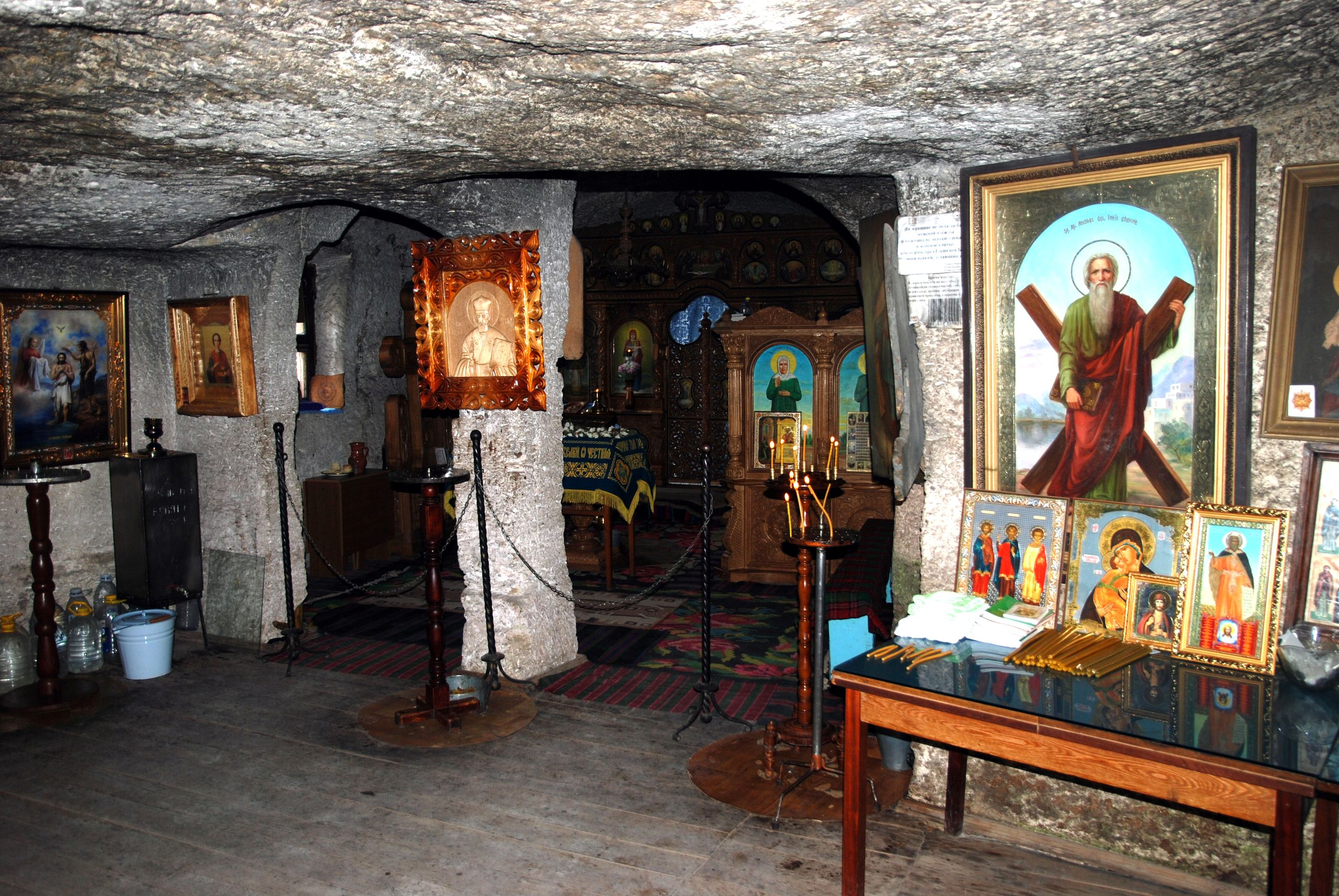 Orheiul Vechi, cave monastery